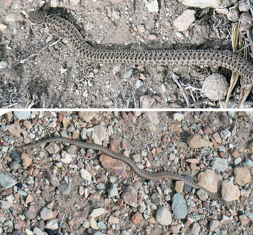 In the Chubut Province of southern Argentina. In context at